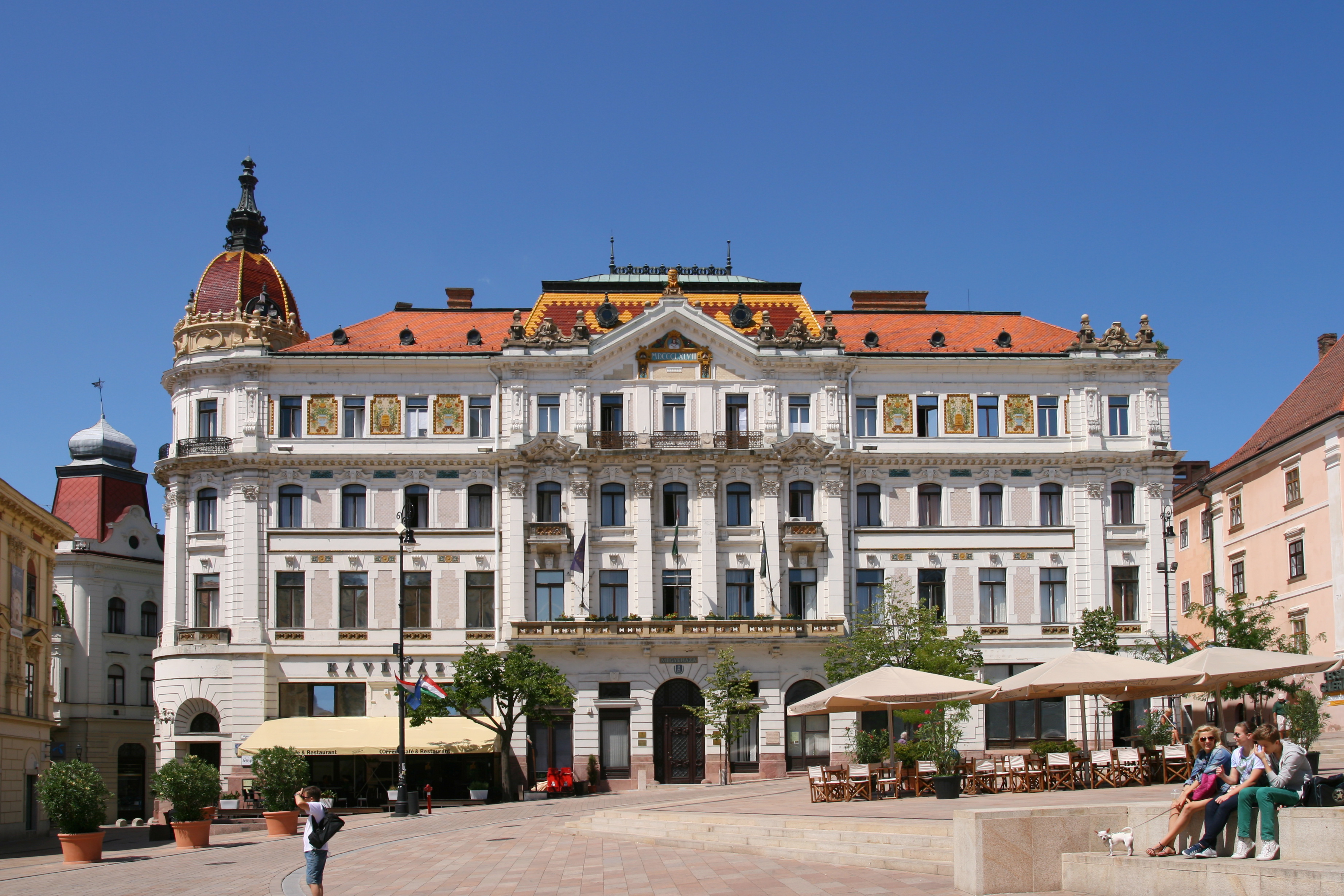 Country Hall in Pécs (Hungary).